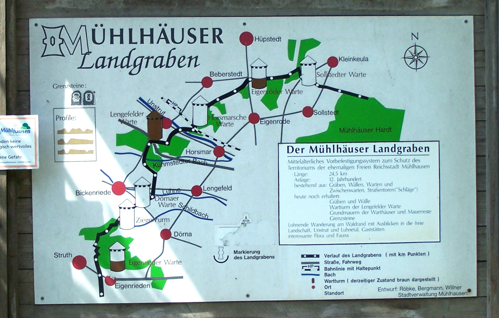 Plan of the Mühlhäuser Landgraben in Eigenrieden.